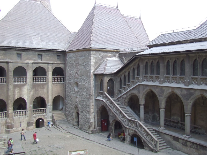 The Castle of Hunedoara (also known as Corvins' Castle), Hunedoara County, Romania